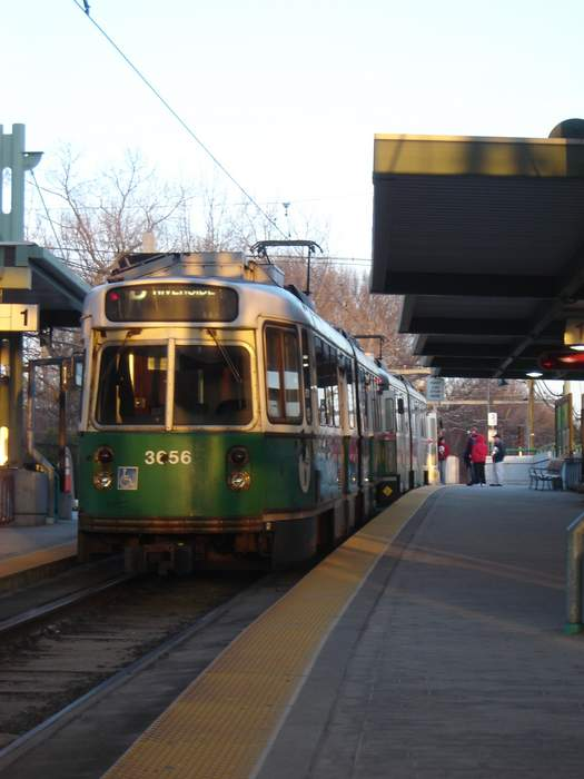 An inbound Type 7 train at Riverside station